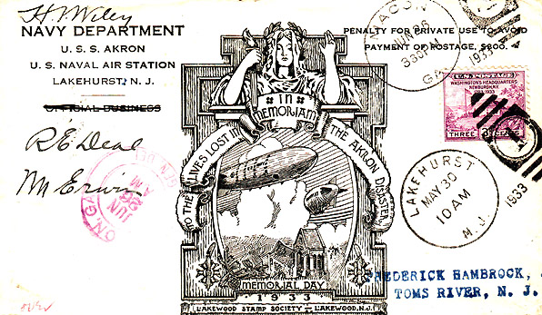 Memorial cover for the "USS Akron" signed by the survivors of the crash (LCDR H.V. Wiley, BM2 R.E. Deal, AM2 M. Erwin) and flown on the "USS Macon" June 26, 1933 Source: The Cooper Collection of Zeppelin Postal History Licensing Stamp Licensing Image Licensing